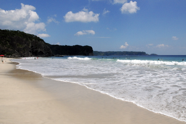 Tatado Beach, Shimoda. Nikon D80